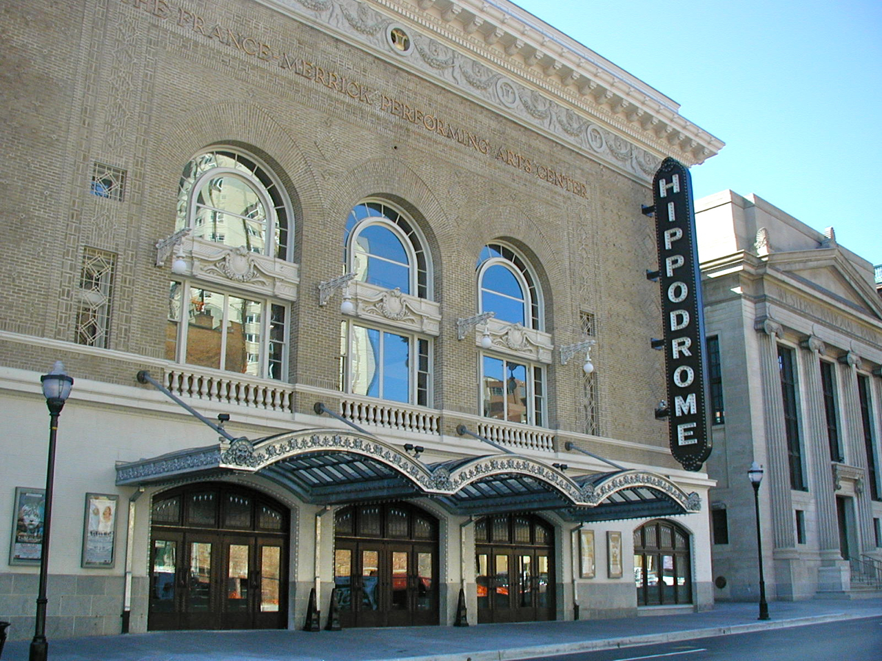 Exterior of the Hippodrome Theater in Baltimore, MD. after its renovation in 2004